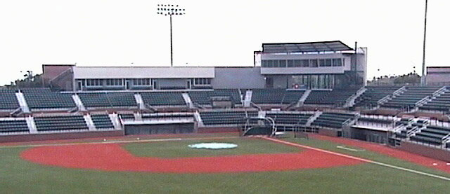 Greer Field at Turchin Stadium, Tulane University, New Orleans